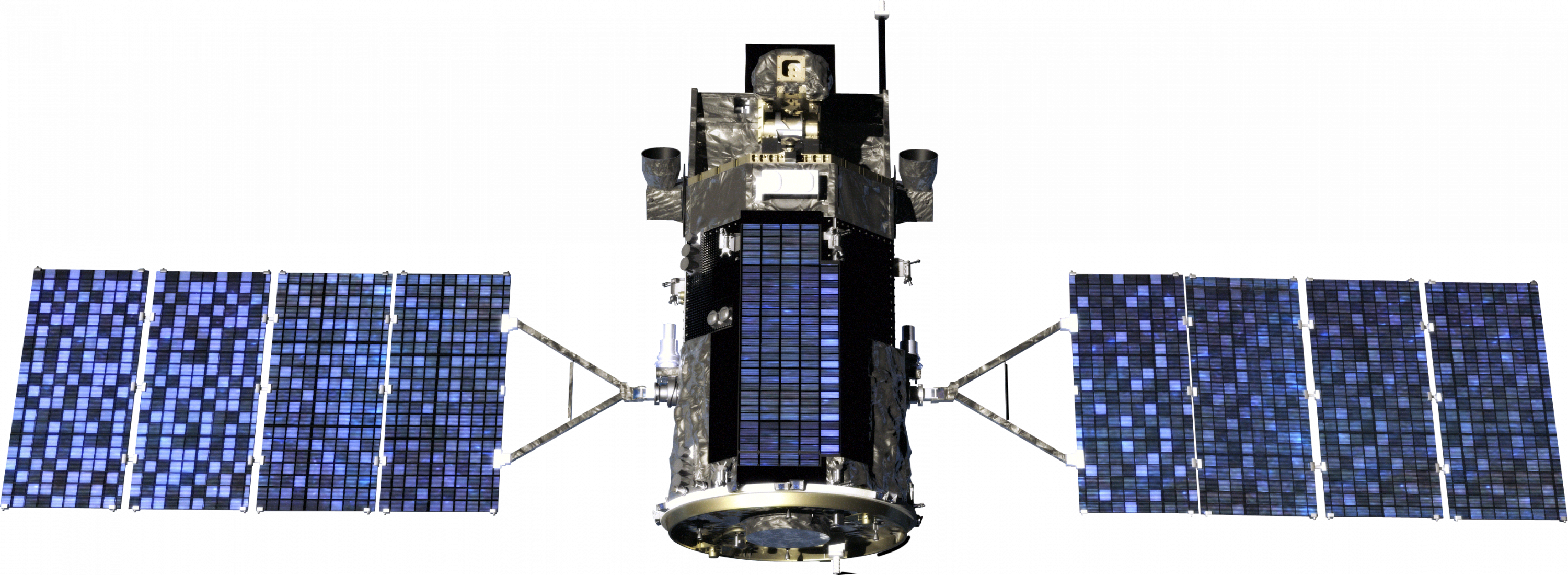 Artist's concept of the Glory spacecraft.